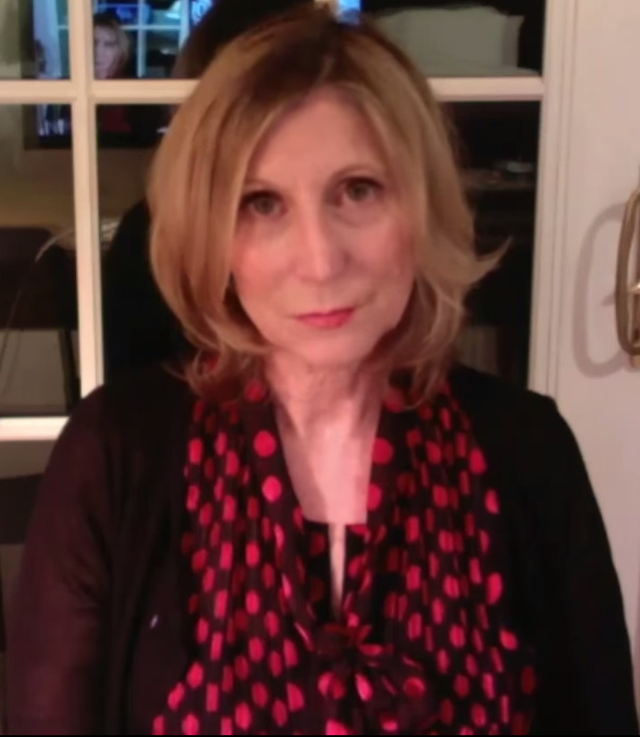 American author and equity feminist philosopher Christina Hoff Sommers filmed during radio discussion on Louder with Crowder with Steven Crowder.